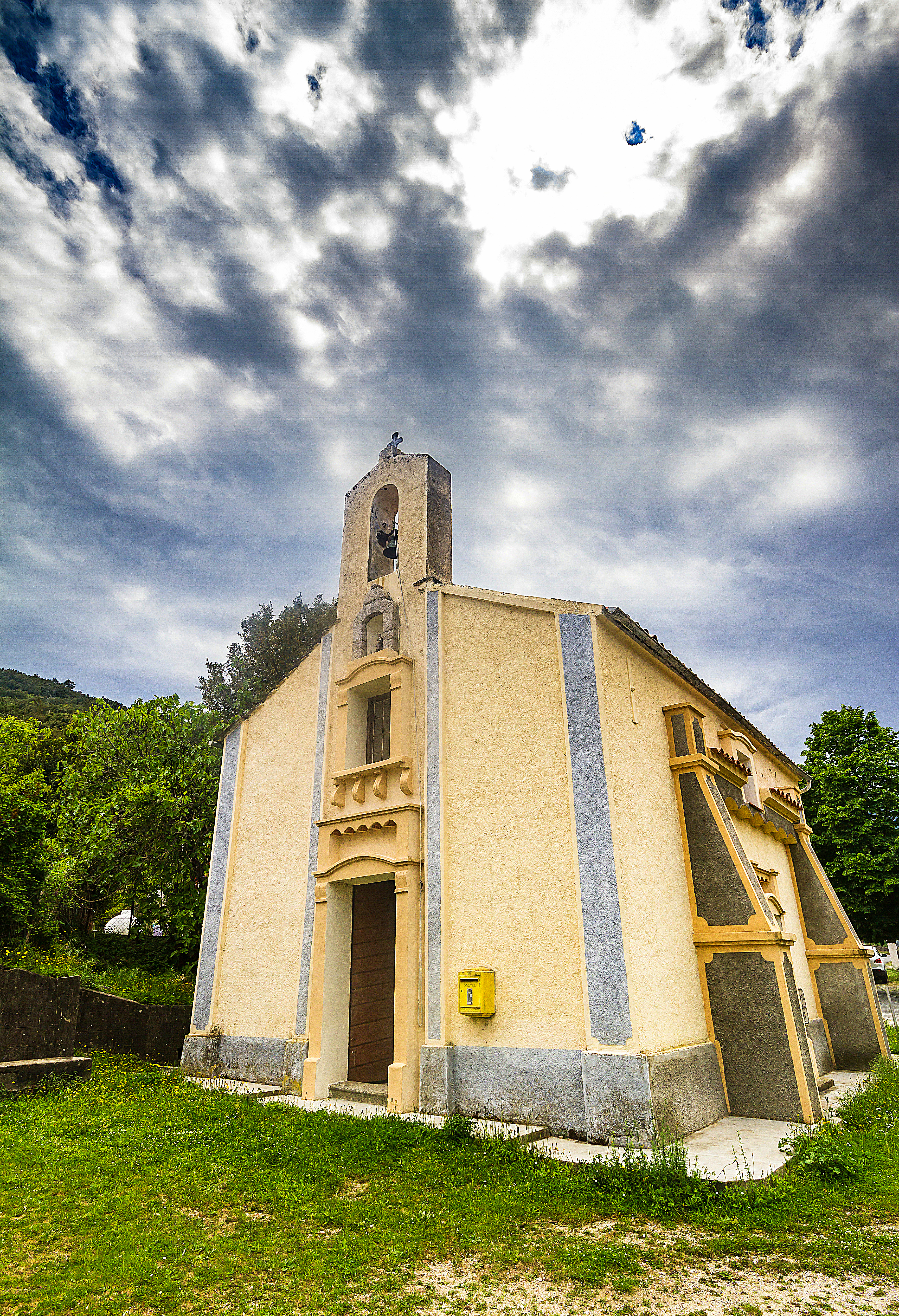 Chapelle d'Acciani